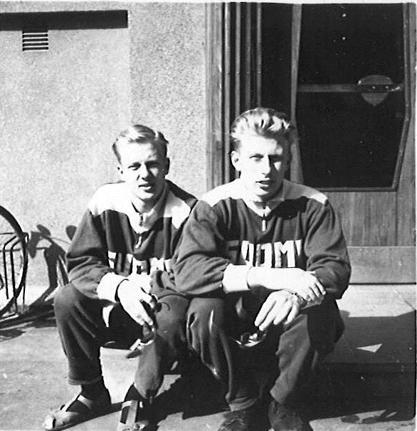 Aulis Kähkönen (right) and Kai Hagelberg, in the Finland-Norway swimming championships of 1954.